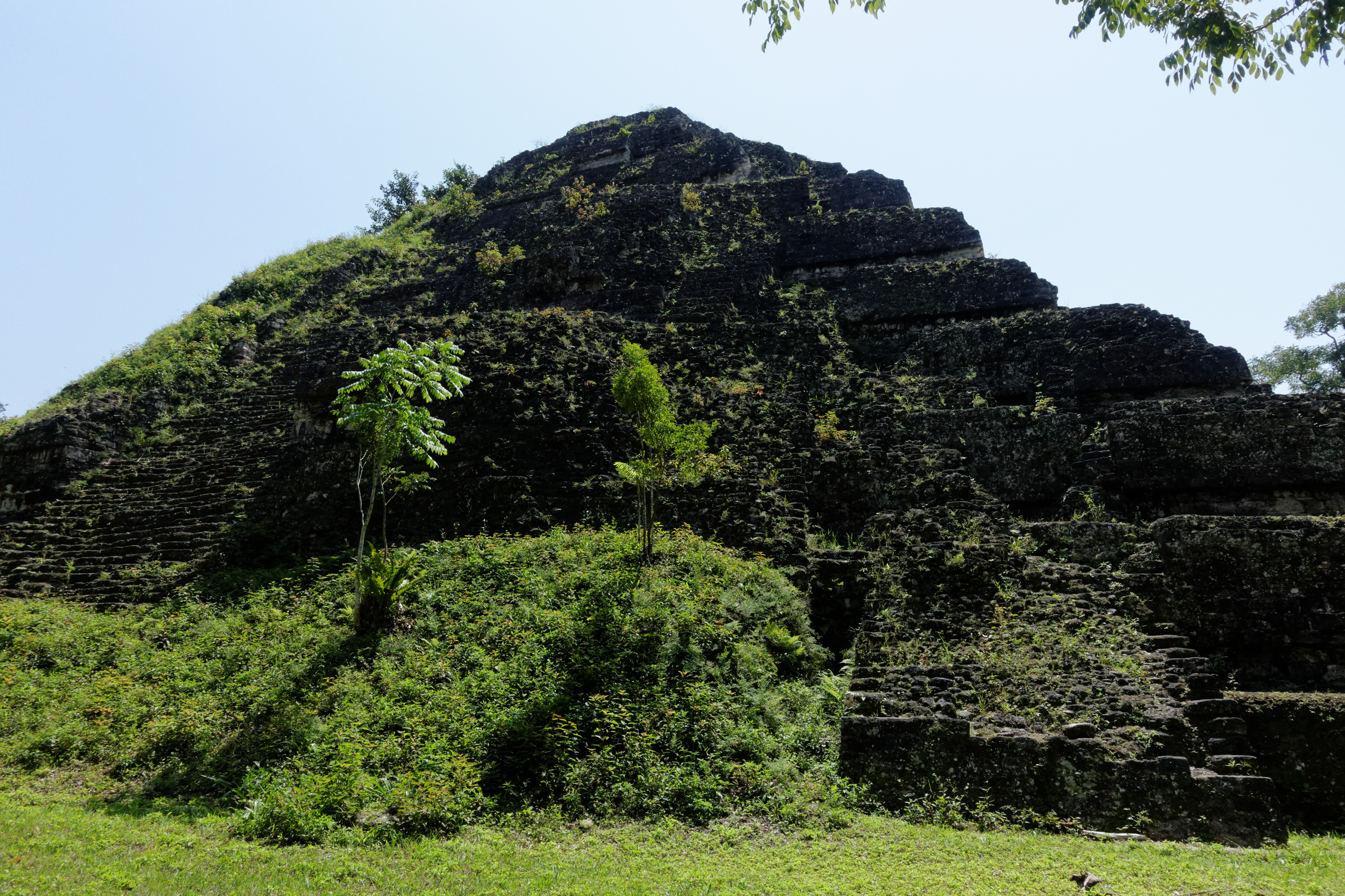 Tikal 2-19